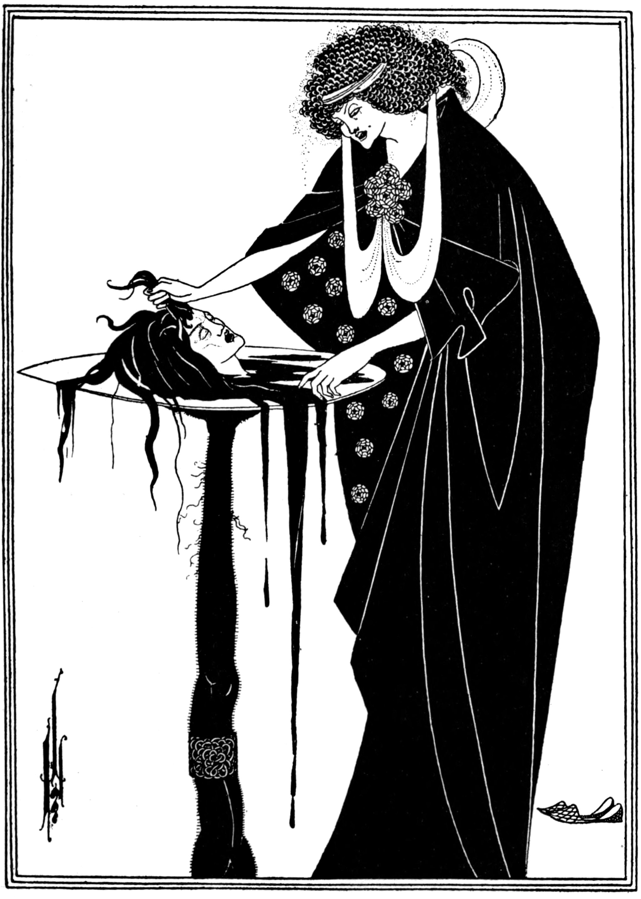 pg 79 of Salomé: a tragedy in one act.